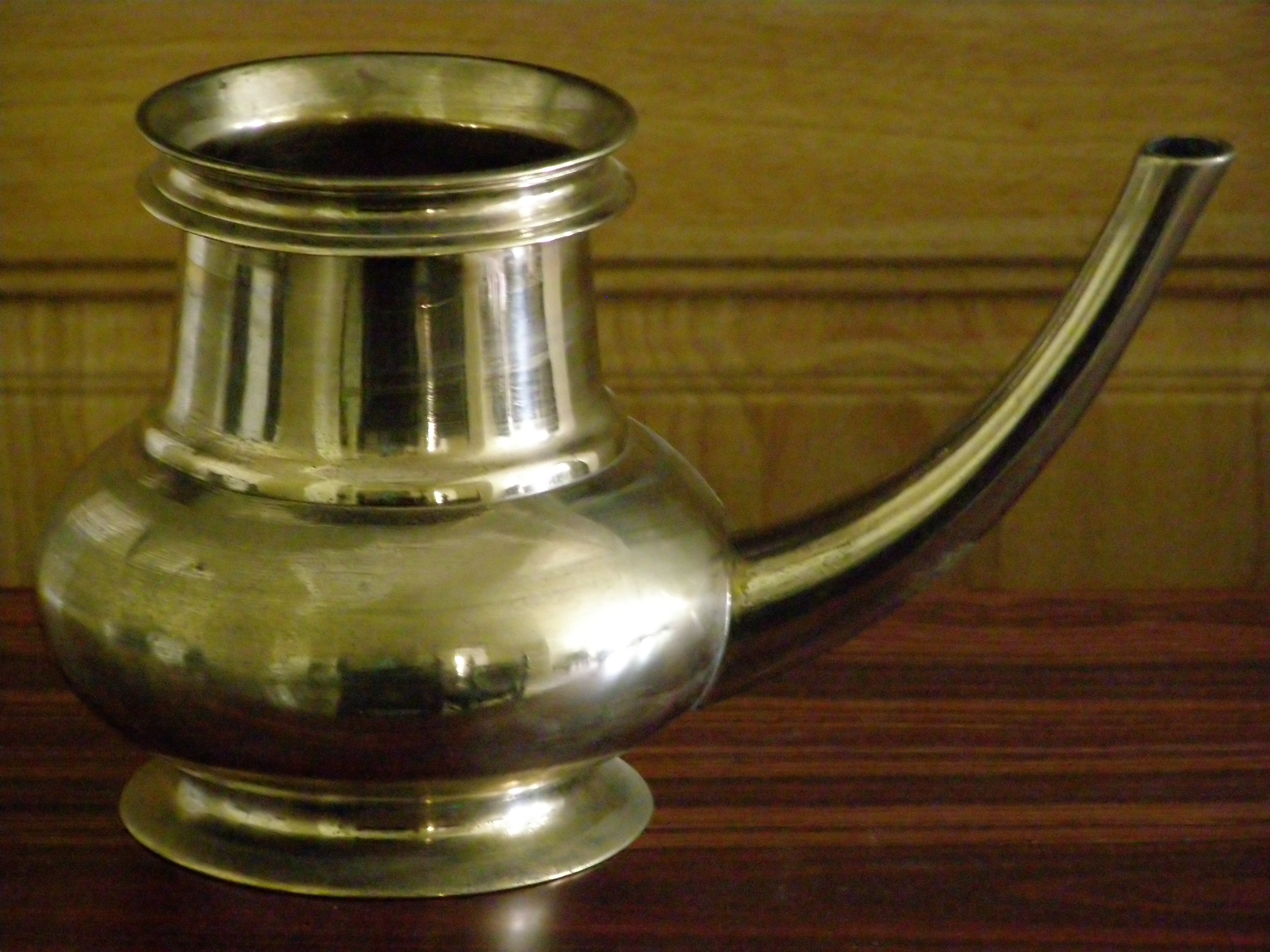 Kindi, a vessel made of bronze used in Kerala, India